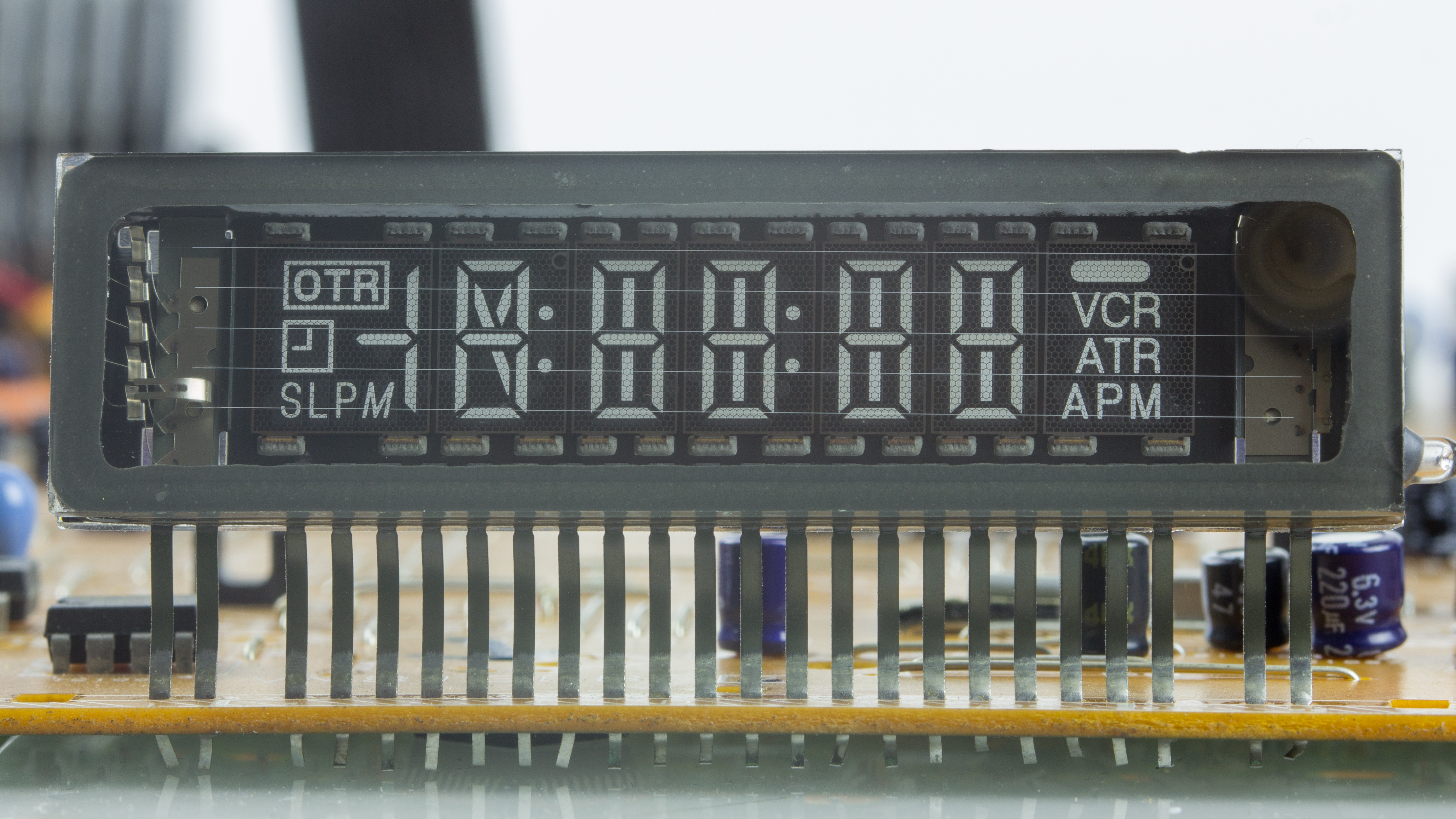 Medion MD8910 - Samsung SVV-07SS22 - Vacuum fluorescent display